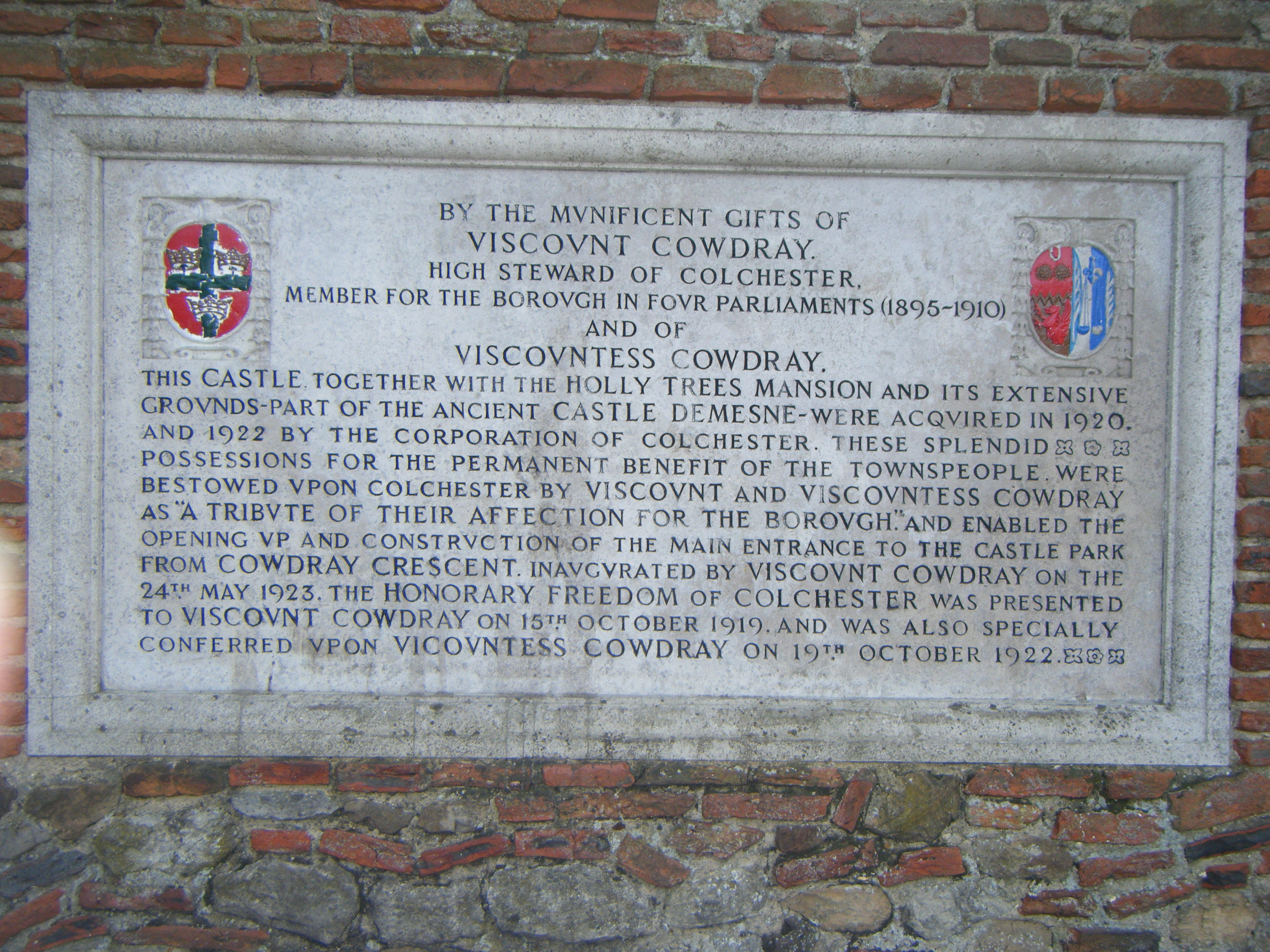 Colchester Castle plaque recording donation of Castle and other property by Viscount and Viscountess Cowdray in 1920-1922